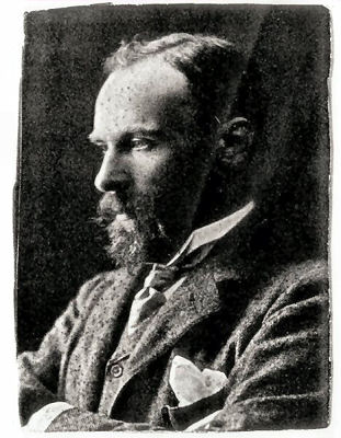 A photograph of John William Waterhouse.